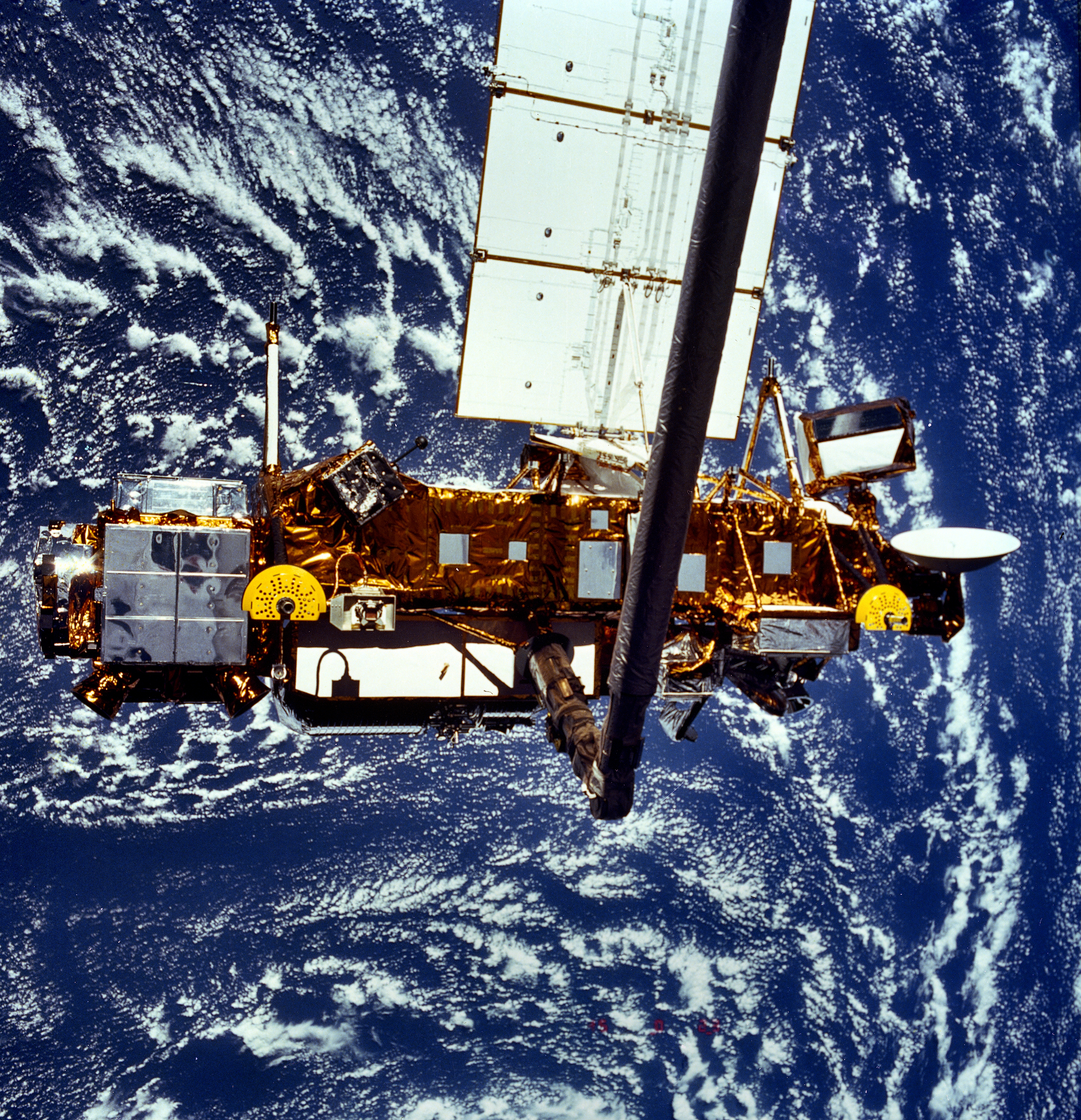 This STS-48 onboard photo is of the Upper Atmosphere Research Satellite (UARS) in the grasp of the RMS (Remote Manipulator System) during deployment, September 1991. UARS gathers data related to the chemistry, dynamics, and energy of the ozone layer. UARS data is used to study energy input, stratospheric photo chemistry, and upper atmospheric circulation. UARS helps us understand and predict how the nitrogen and chlorine cycles, and the nitrous oxides and halo carbons which maintain them, relate to the ozone balance. It also observes diurnal variations in short-lived stratospheric chemical species important to ozone destruction. Data from UARS enables scientists to study ozone depletion in the upper atmosphere.